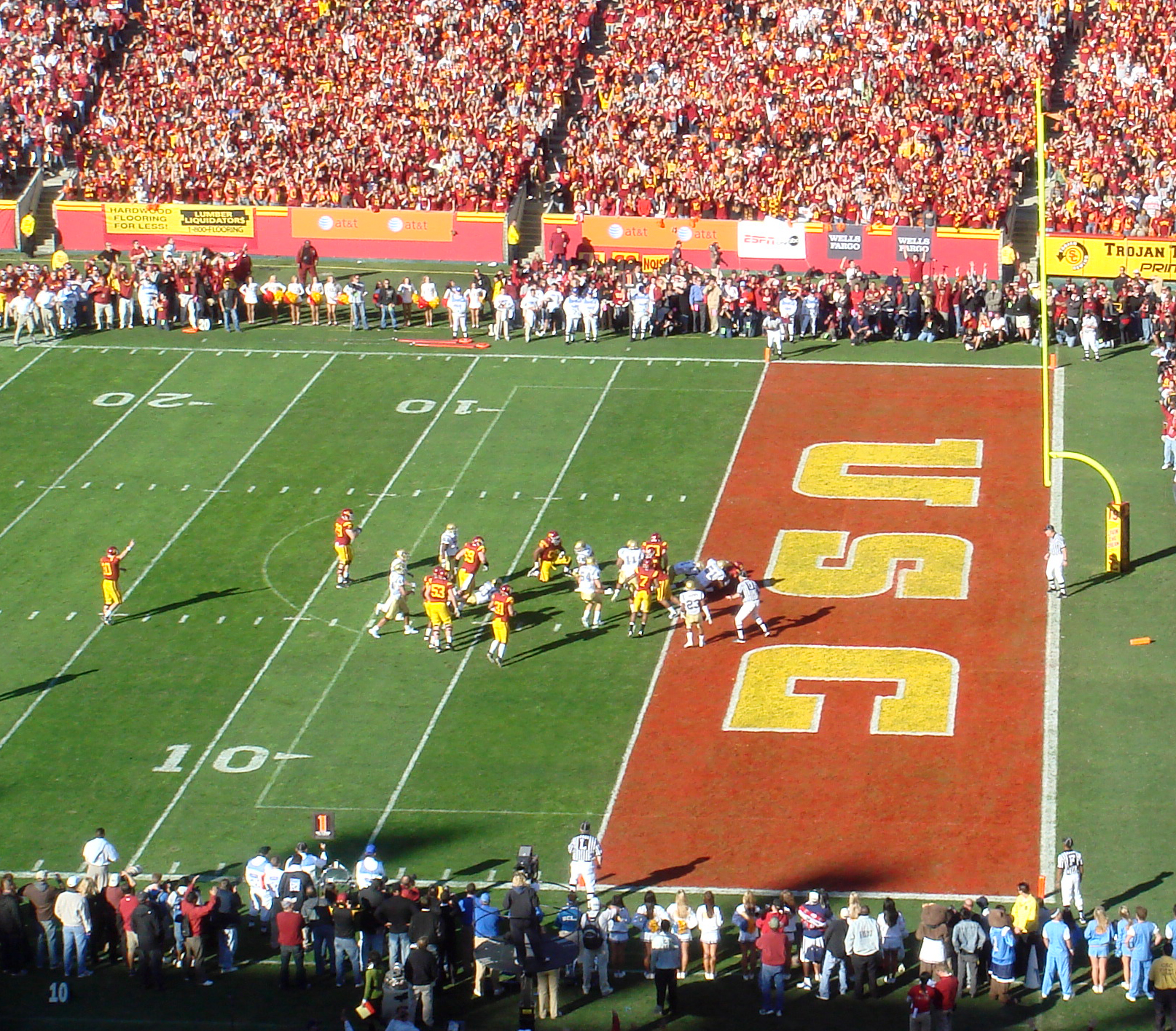 Joe McKnight (fallen in end-zone) scores the first touchdown of the 2007 UCLA-USC rivalry game. The UCLA Bruins visit the USC Trojans at the L.A. Coliseum; USC would win, 24-7.